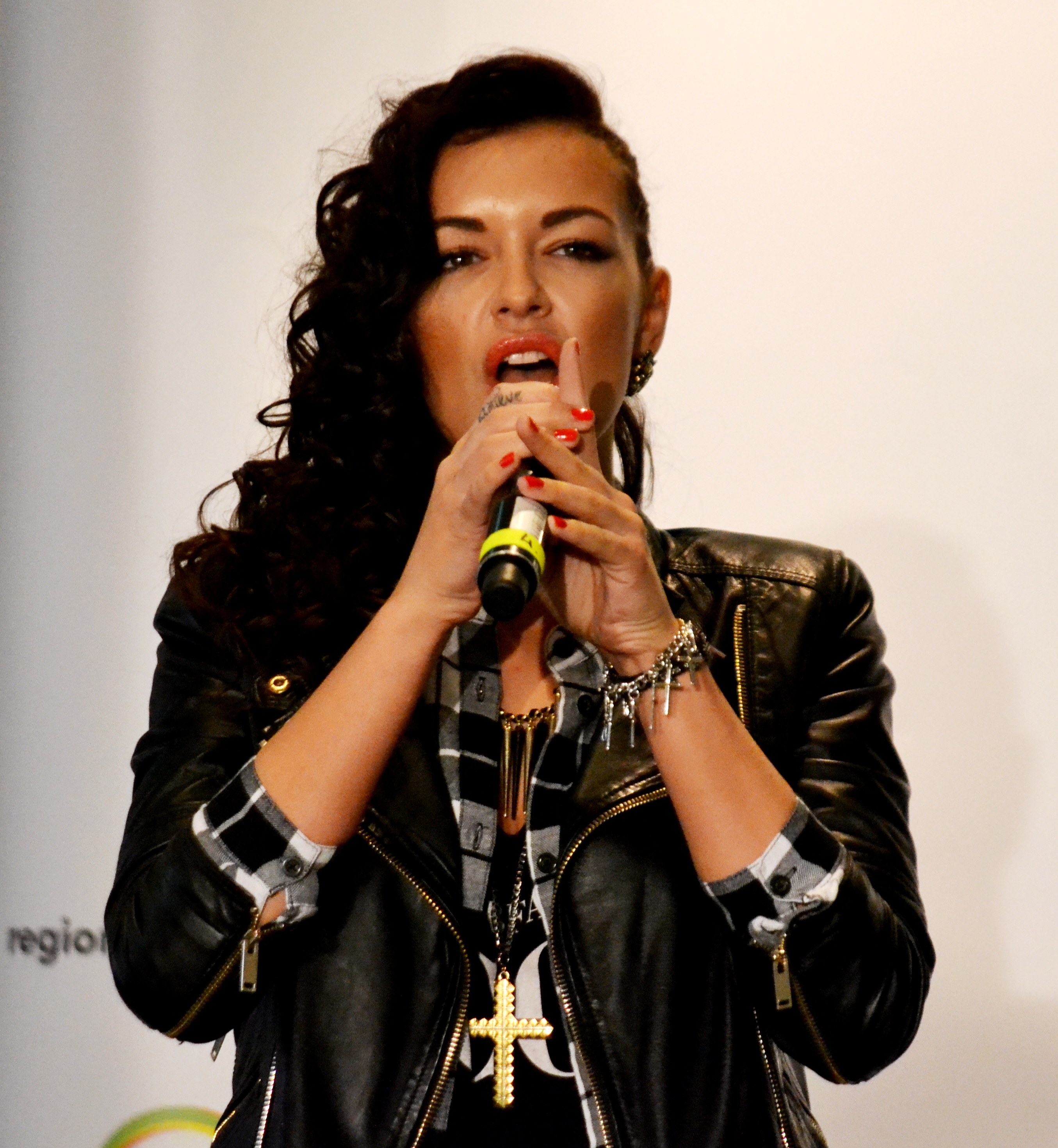 Jitka Válková, vocalist and winner of Czech Miss 2010